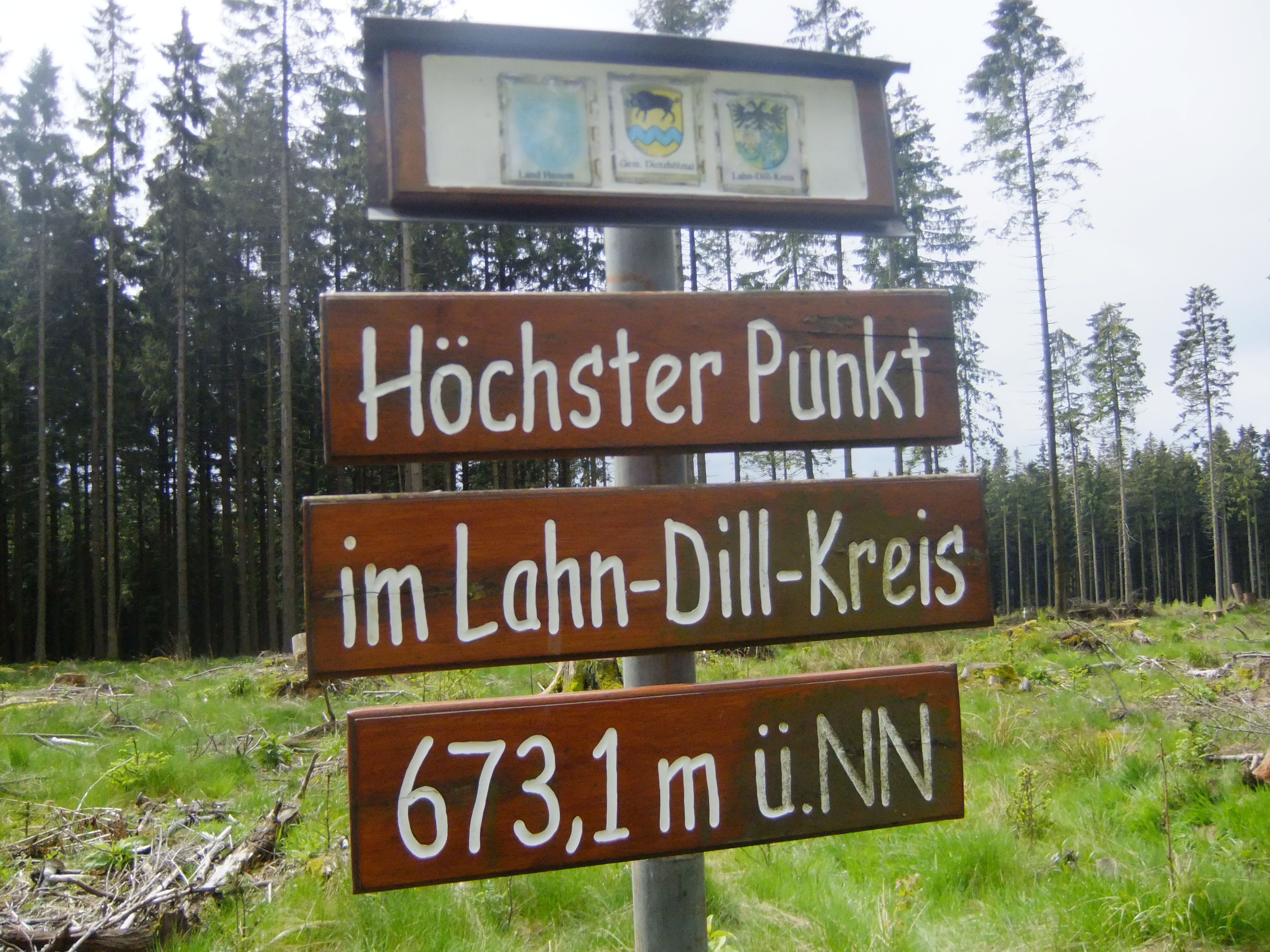 Highest altitude of Lahn-Dill-Kreis (Germany)